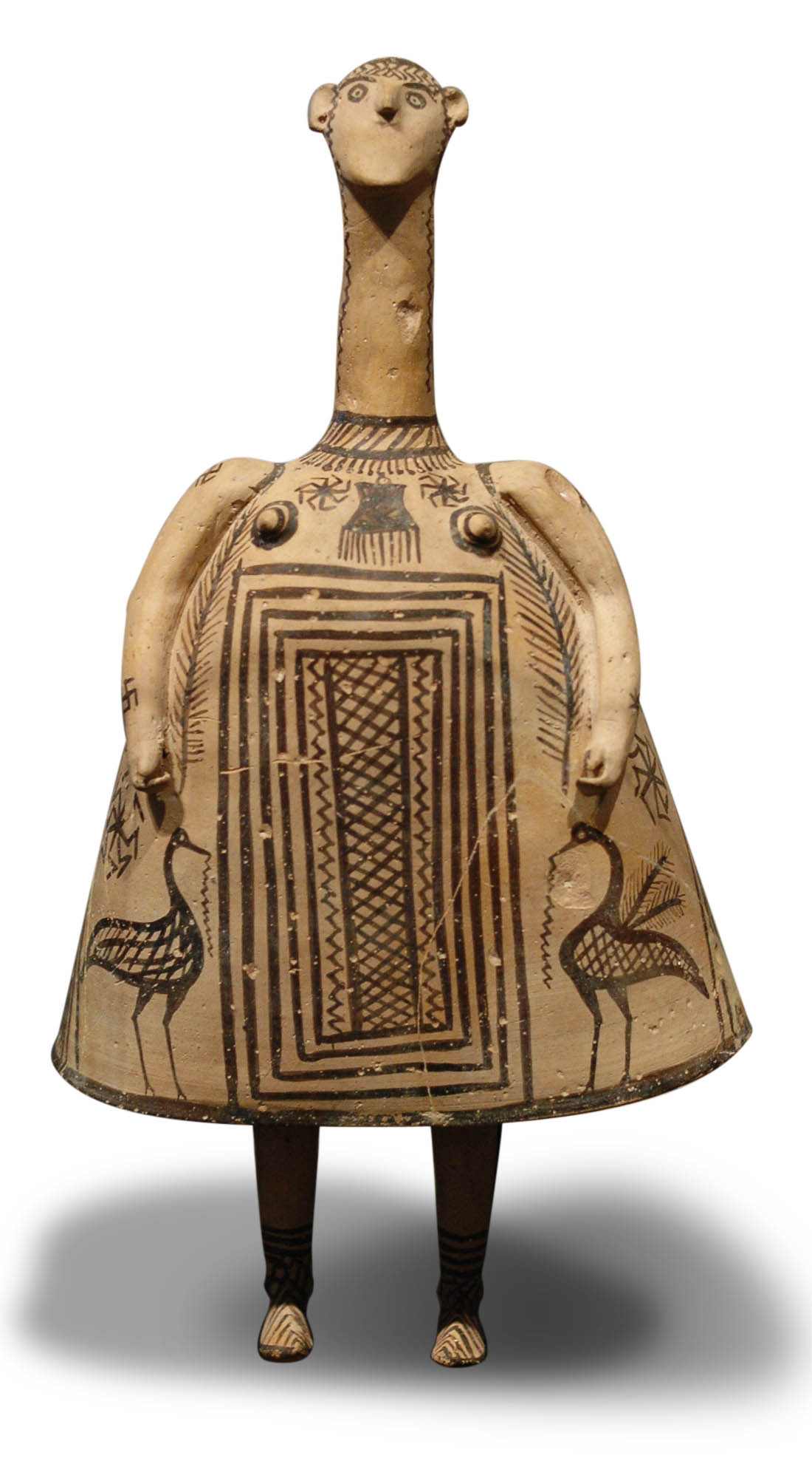 Bell idol. Terracotta figurine, 7th century BC (Late Geometric period).